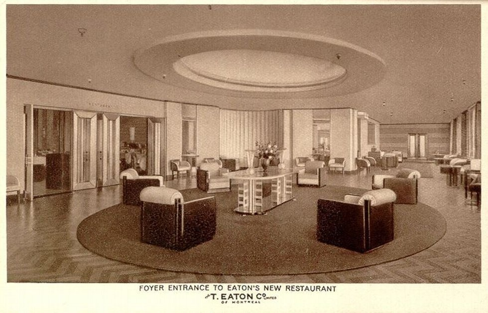 Postcard of the foyer entrance to Eaton's ninth floor restaurant, Montreal, Quebec, Canada.